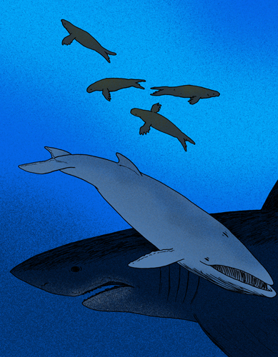 Reconstruction of the Miocene to Pliocene whale Balaenoptera bertae, of California